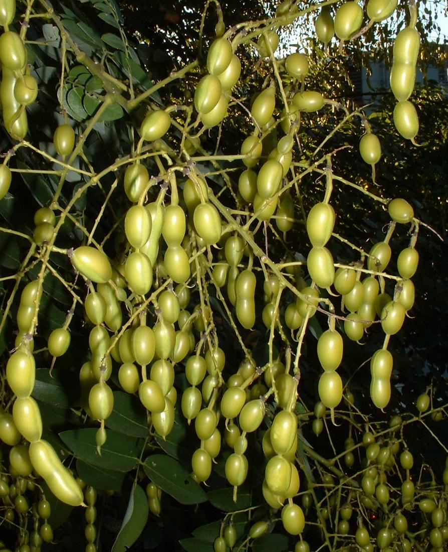 Seed pods on Styphnolobium japonicum in MA, United States.